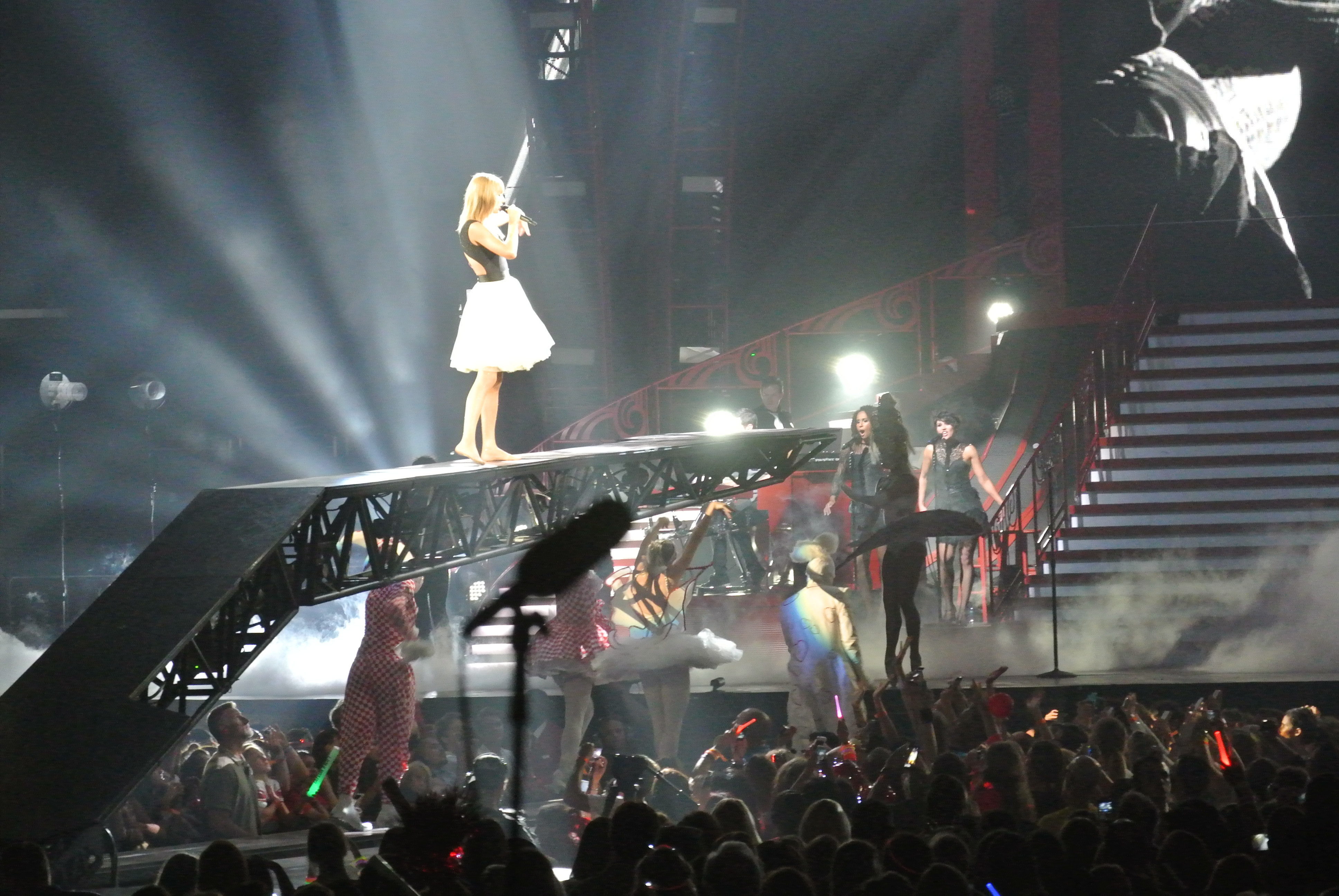 Taylor Swift performed Treacherous during Red Tour in Los Angeles